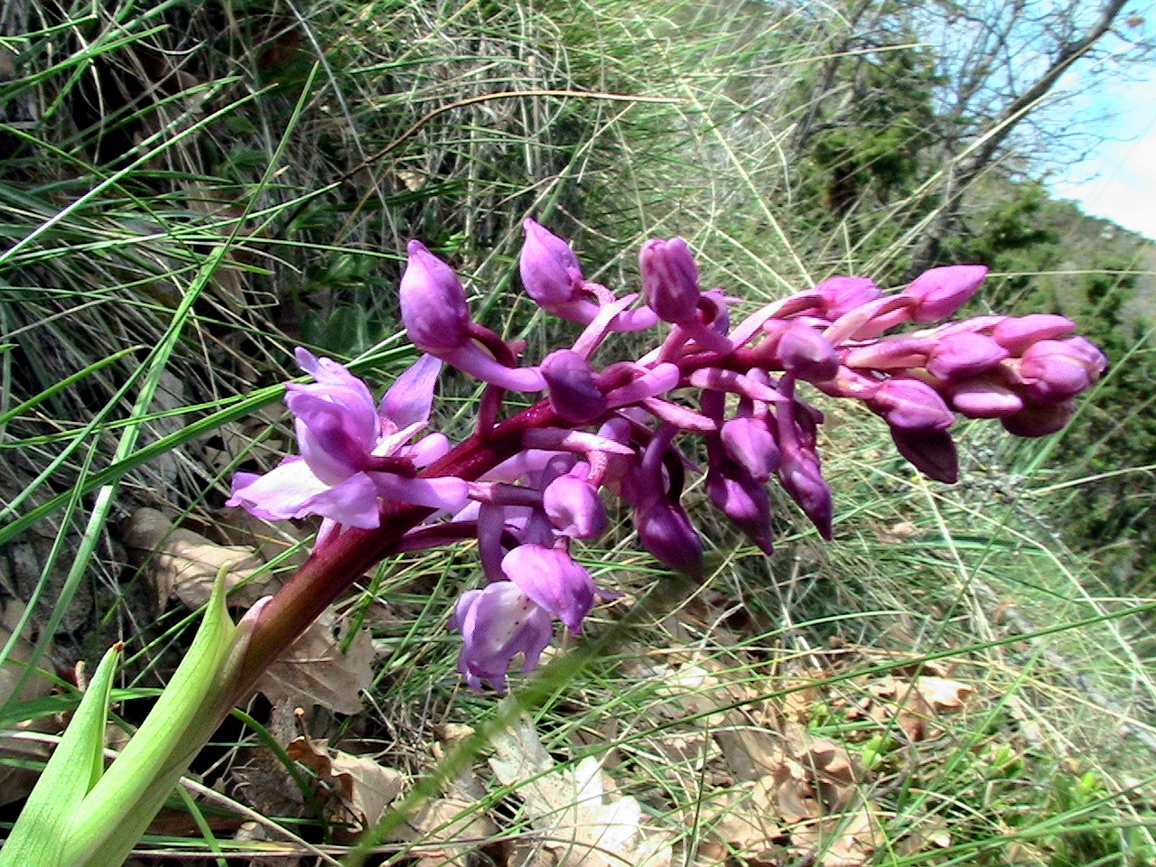 Orchis mascula. In Montsec de Rúbies (Pallars Jussà - Catalunya). To 1.320 m. altitude